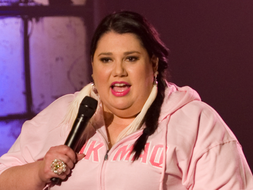 Comedian Candy Palmater performing for The Candy Show which she created/wrote/co-produced for broadcast on APTN in Canada.